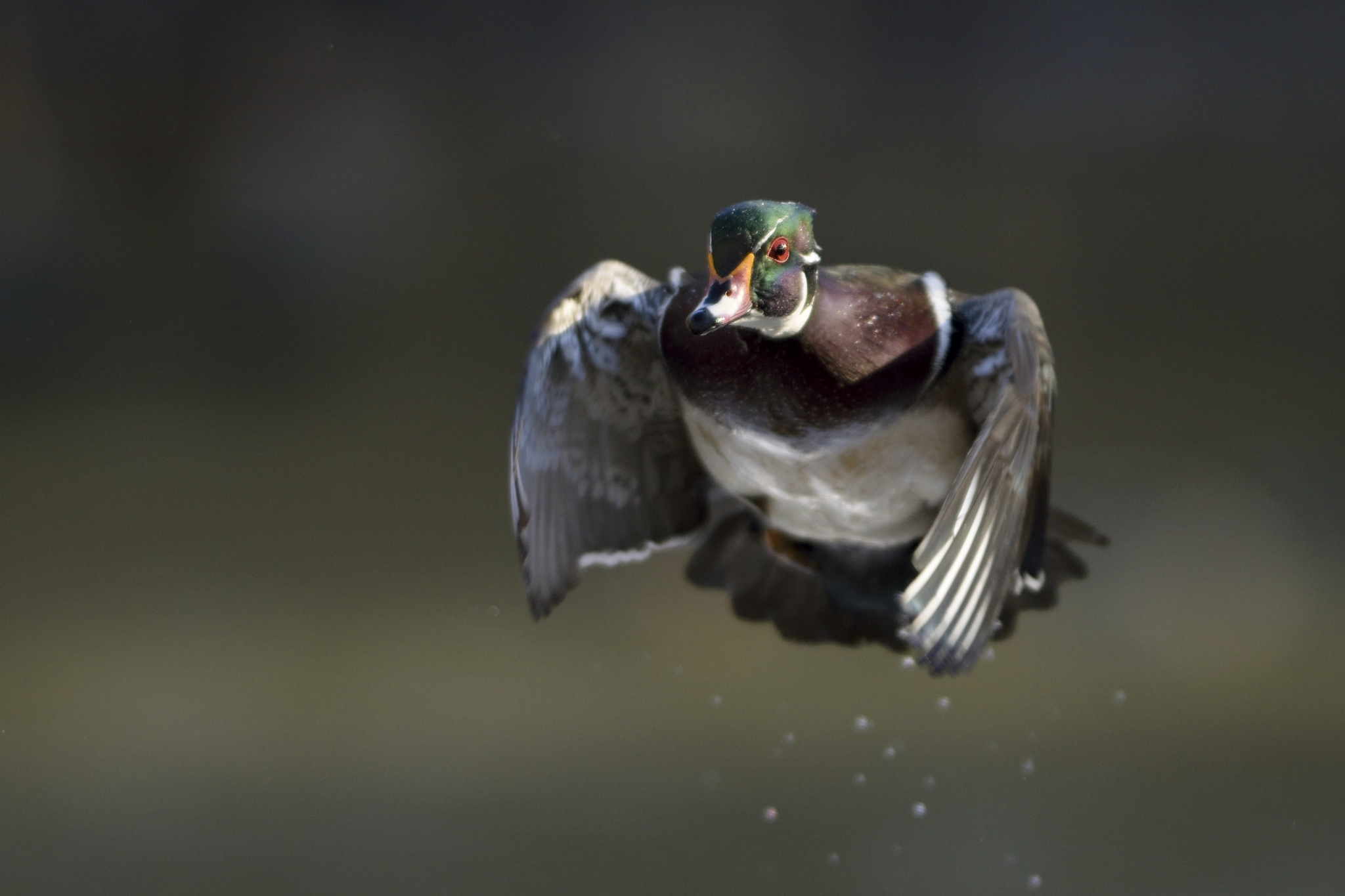 Taken in area Montreal Canada